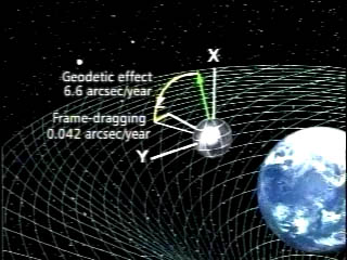 Artist concept depicting Gravity Probe B's measurement of the geodetic effect (in the x-z plane) and of the frame dragging effect (in the y-z plane).